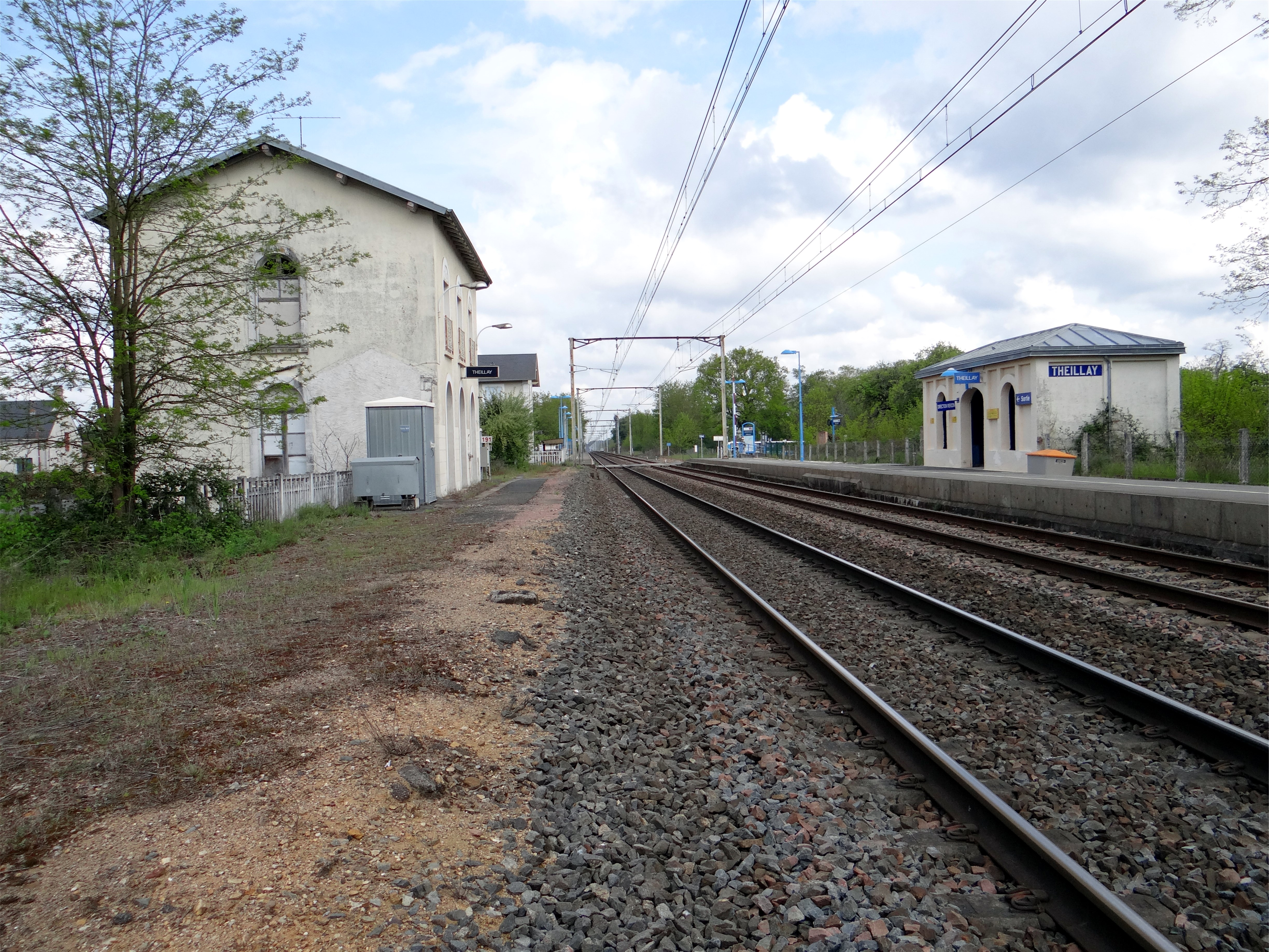 The station S.N.C.F. and wharves Theillay, Loir-et-Cher, France.